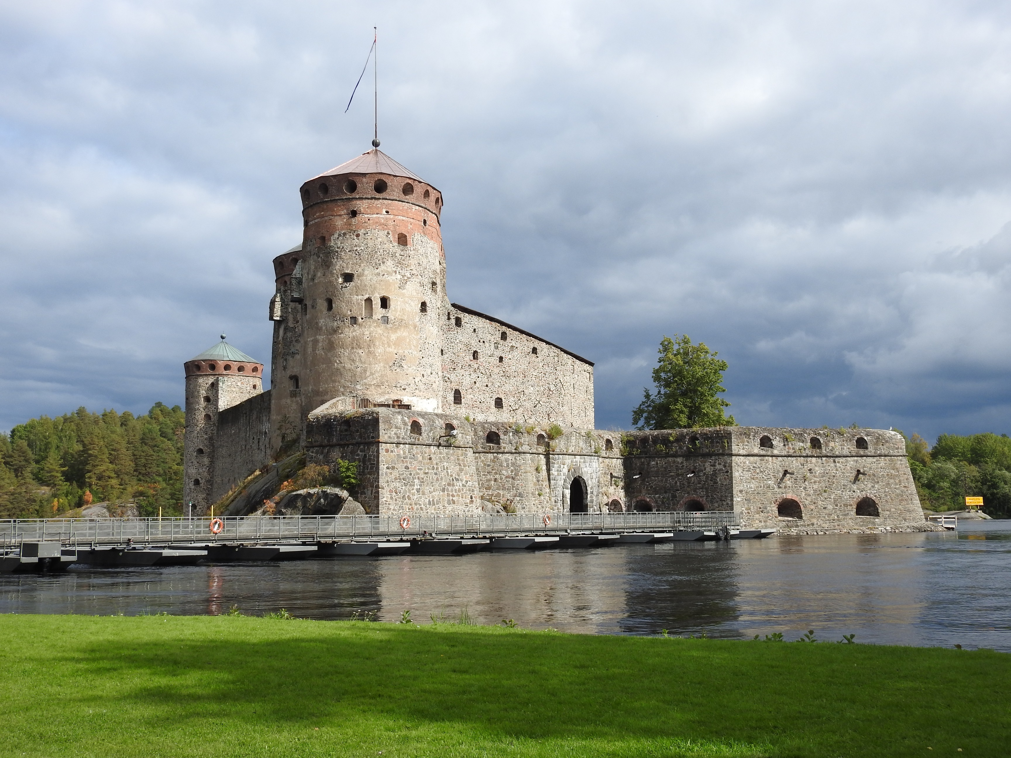 Olavinlinna castle in Savonlinna